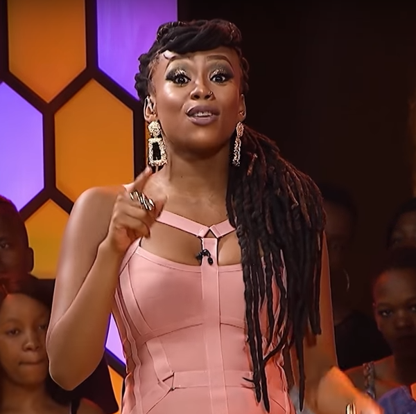 Screenshot from a preview video for MTV Shuga Down South in Feb 2019. See tile for detail